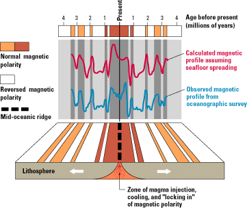 A comparison of the observed magnetic profile for the seafloor across the East Pacific Rise against a profile calculated from the Earth's known magnetic reversals, assuming a constant rate of spreading. Original caption: "An observed magnetic profile (blue) for the ocean floor across the East Pacific Rise is matched quite well by a calculated profile (red) based on the Earth's magnetic reversals for the past 4 million years and an assumed constant rate of movement of ocean floor away from a hypothetical spreading center (bottom). The remarkable similarity of these two profiles provided one of the clinching arguments in support of the seafloor spreading hypothesis."